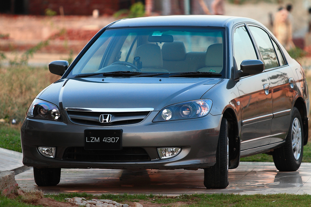 Random 7D shots